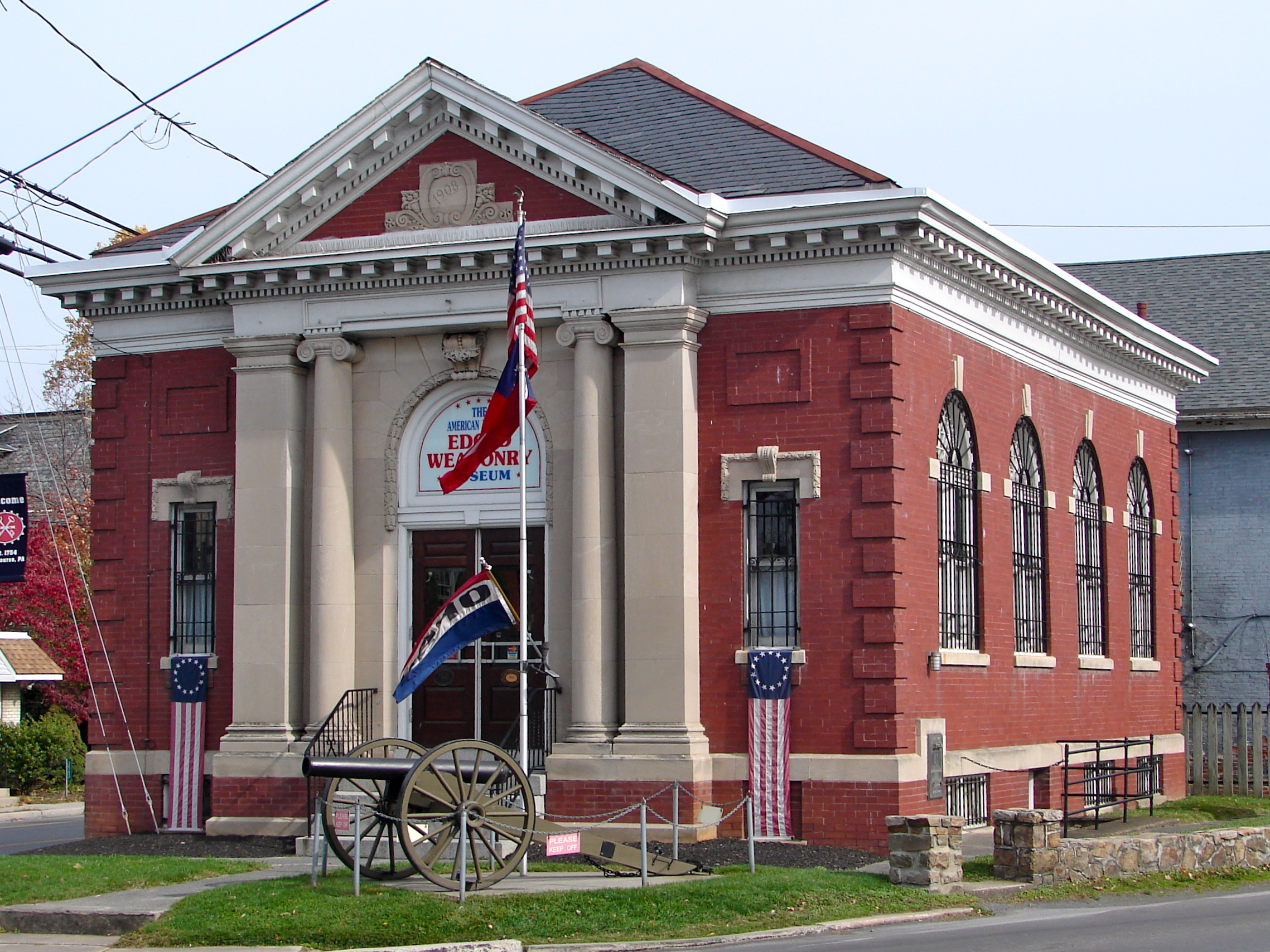 Bank building, built 1908, now the Museum of Edged Weapons, in Intercourse, Pennsylvania